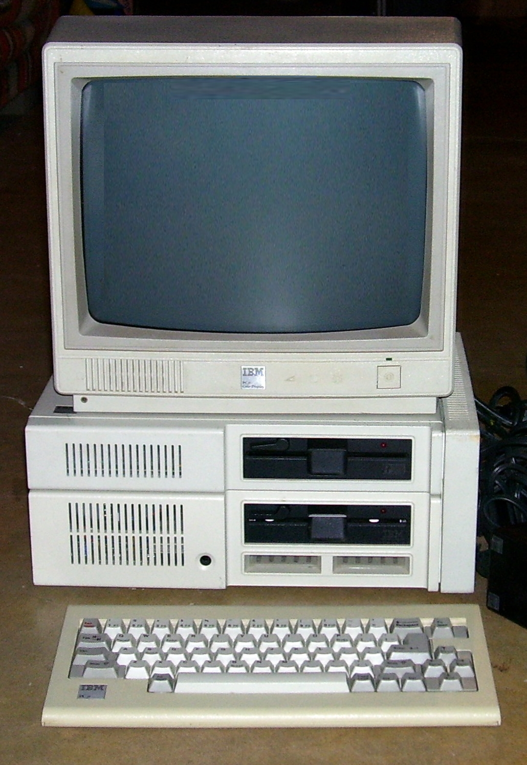 IBM PCjr